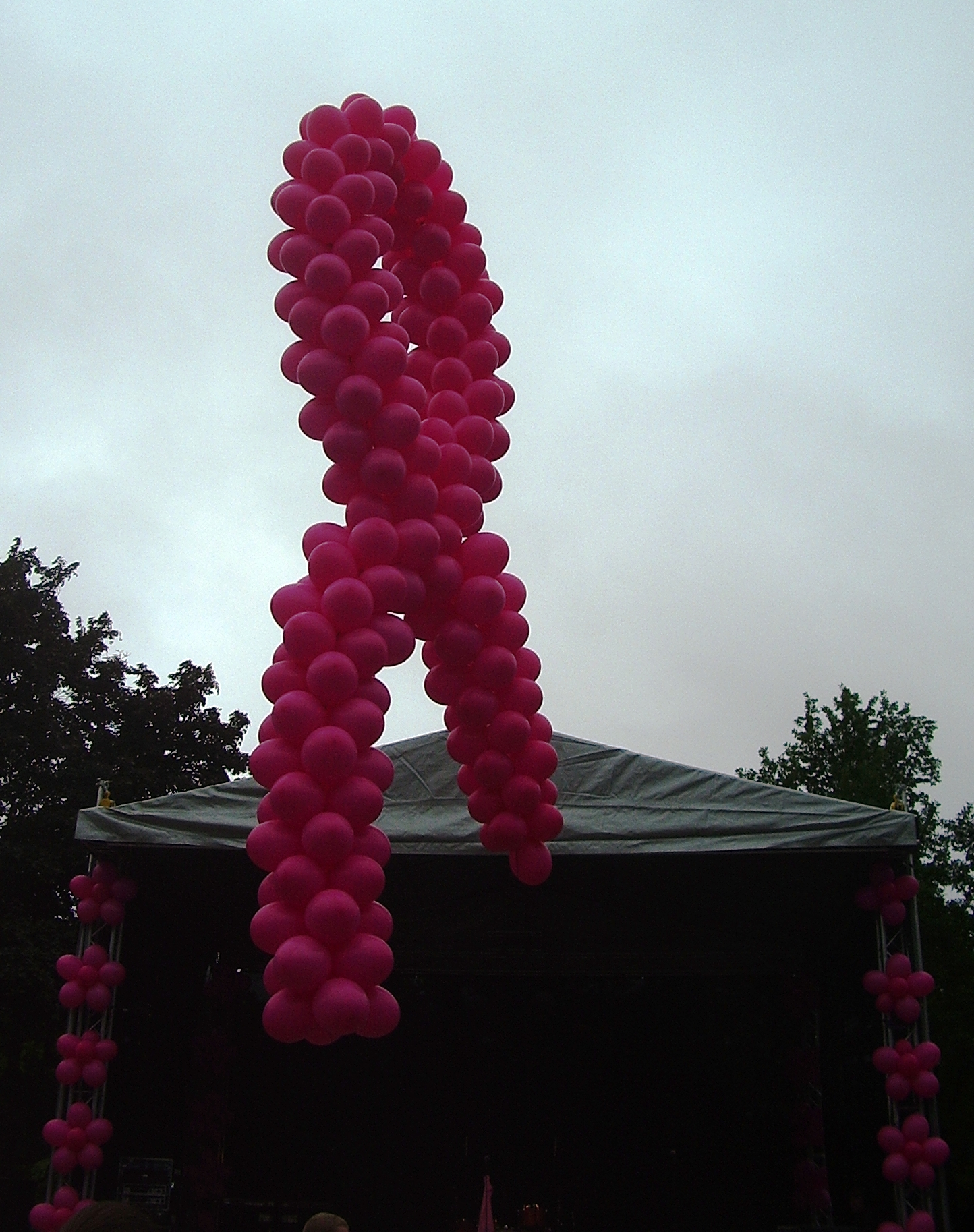 Pink ribbon of balloons. Picture taken in Tallinn city center